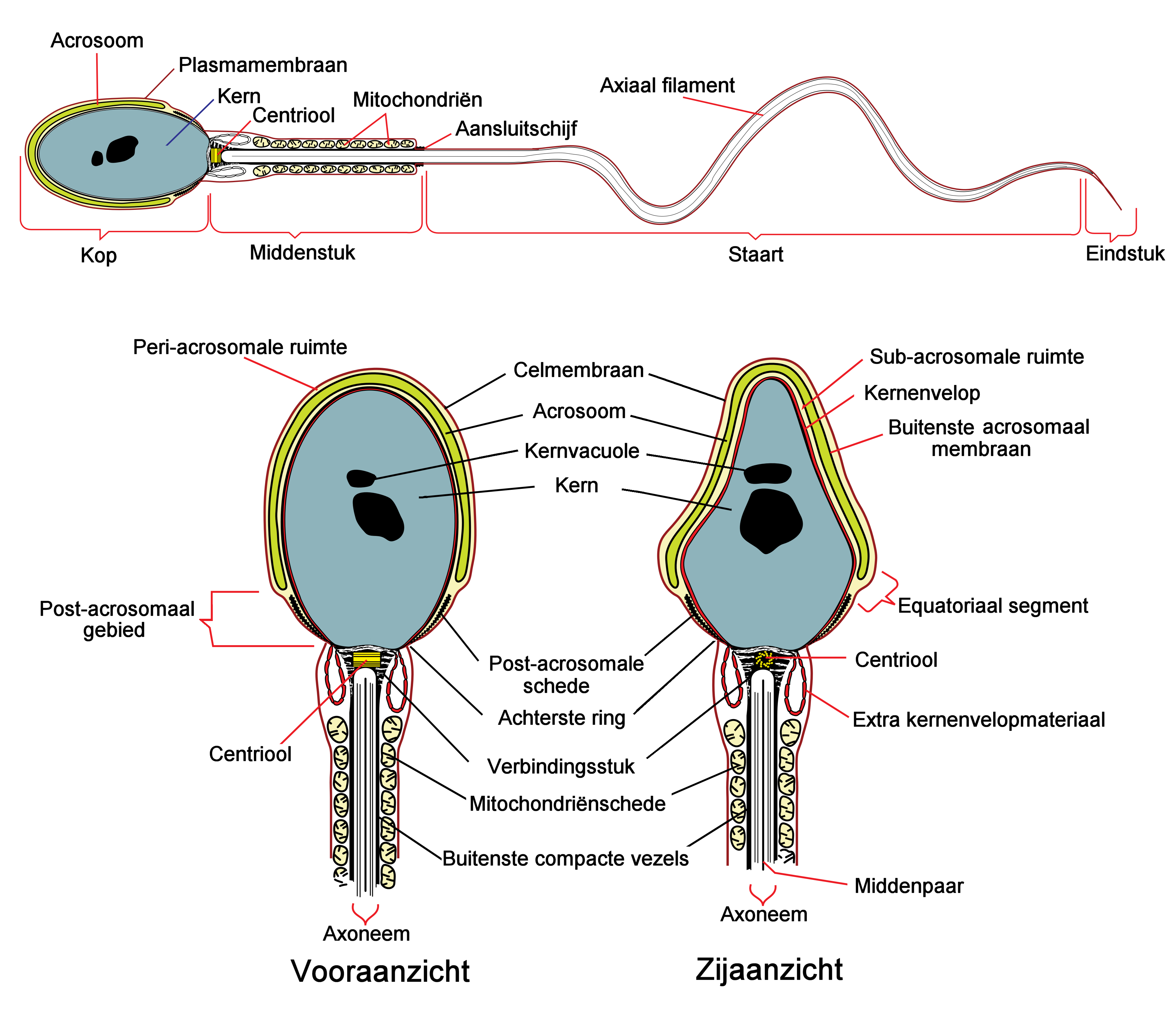 the diagram shows a simple description of a human spermatozoon with special detail of the head.